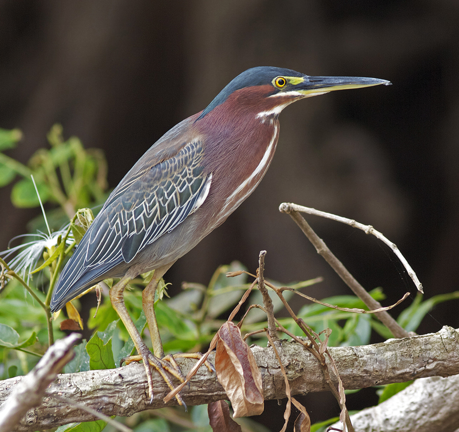 Green Heron photo taken at Tortuguero National Park, Costa Rica.